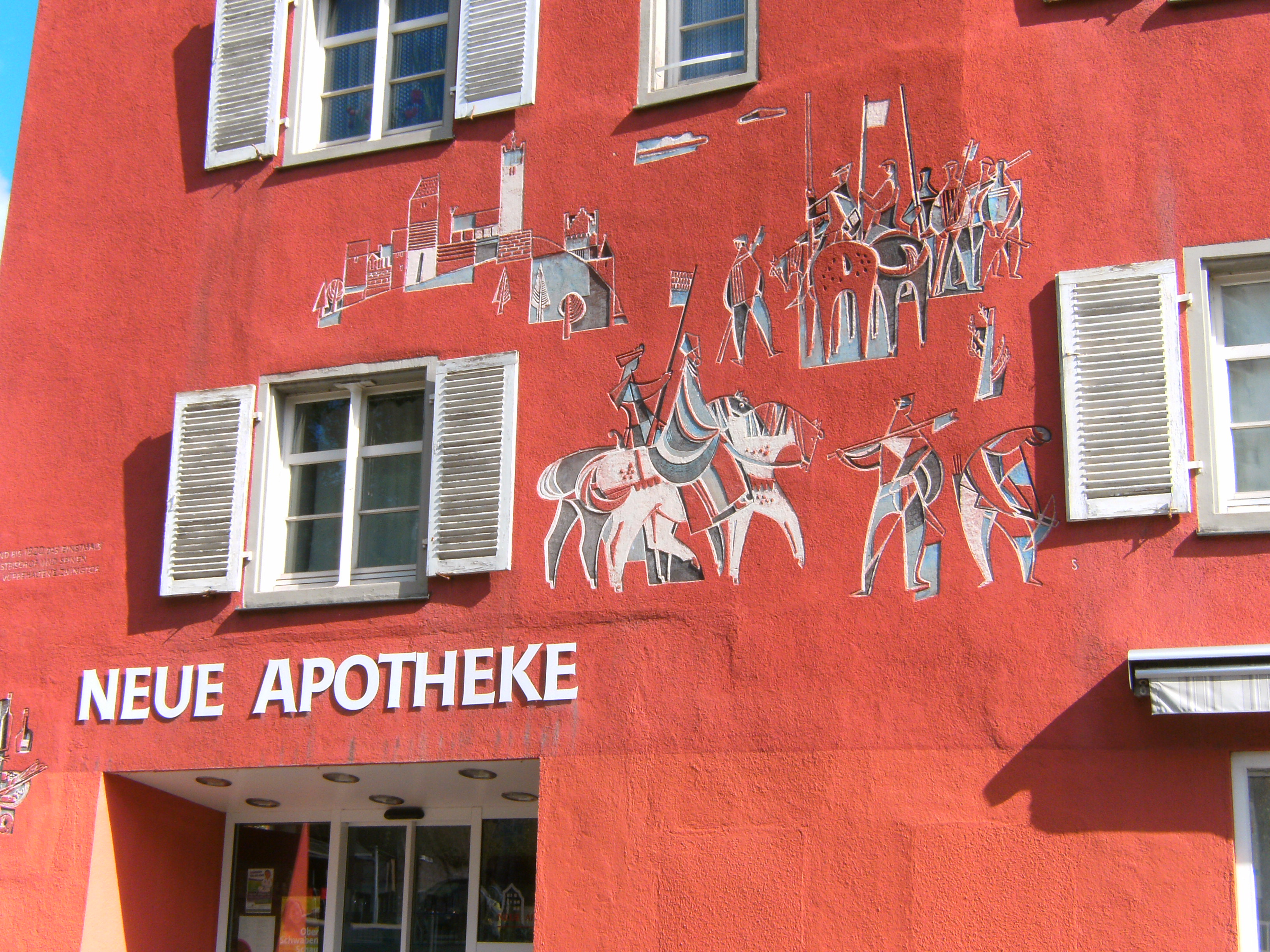 Sgraffito by Hans Sauerbruch in Meersburg, Germany, Kirchstraße 6 showing the scenery: The bishop enters his seat of court in Meersburg.